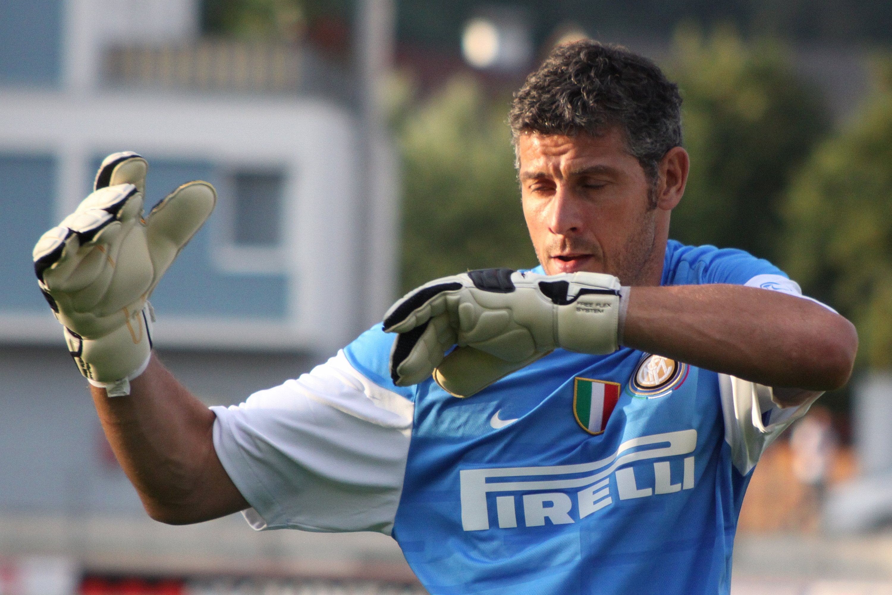 Francesco Toldo - F.C. Internazionale Milano.